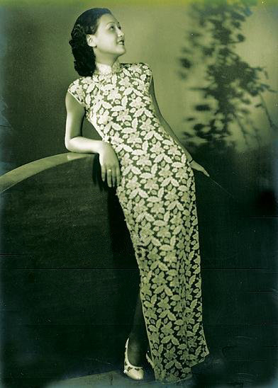 Chinese movie star Li Lili (1915–2005) “Li Lili’s lively, healthy and fashionable image won the hearts of the audience. She was publicly recognized as ‘Sweet Sister’ and was popular among the young.” — A Jasmine Swinging In the Wind – Movie Star Li Lili’s Screen Career